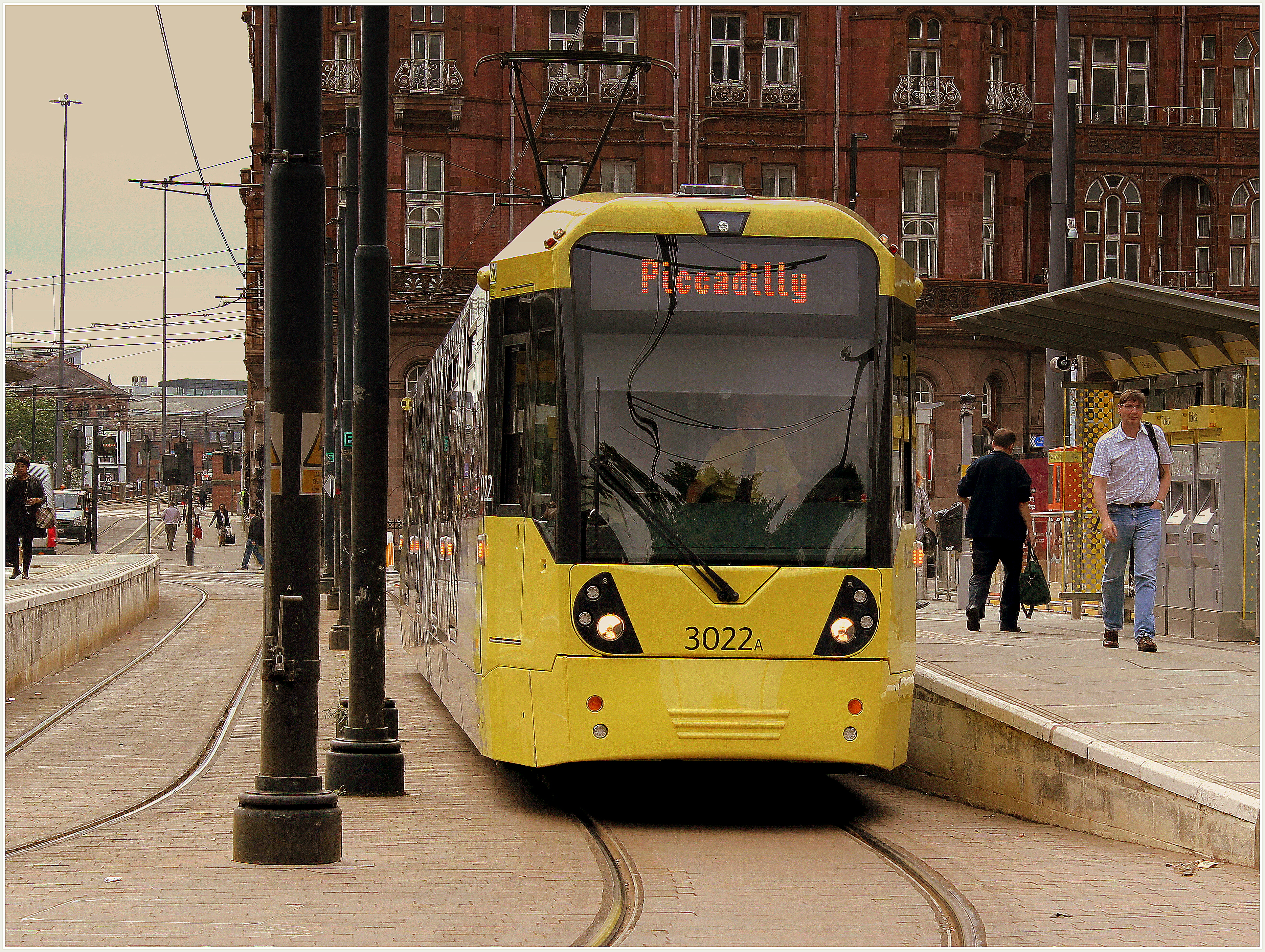 Metrolink tram number 3022 at St Peter's Square stop in central Manchester, England.